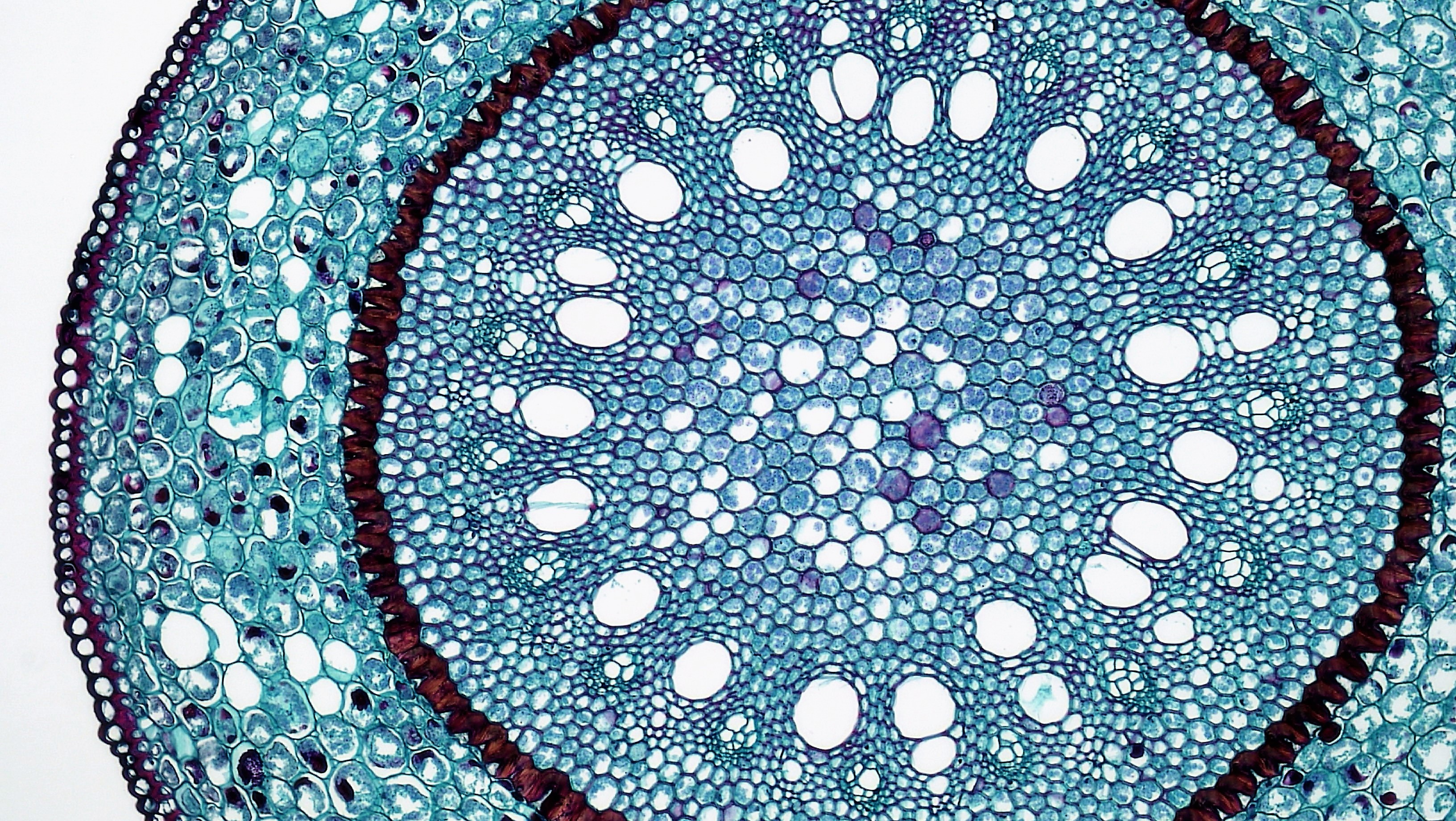 cross section: Smilax root common name: Greenbriar magnification: 100x Berkshire Community College Bioscience Image Library The single layered epidermis lacks a cuticle. Root hairs appear as unicellular extensions of epidermal cells. The cortex is well-developed and divided into two zones; a narrow outer layer of closely packed smaller parenchyma cells and a wide inner layer of open larger aerenchyma cells. In older stems, cortical tissues just beneath epidermis form a sclerenchymized exodermis. Scattered cortical cells may be sclerenchymized as well. The inmost area of the cortex is bounded by a prominent endodermis of large U-shaped cells whose walls are heavily suberized, marking the Casparian strip. Within the endodermis occasional small passage cells serve to transport of water into the stele. The stele is bound is a pericycle of several layers of thin walled parenchyma cells, often sclerenchymized in older roots. The vascular tissues consist of radiating arms of xylem and phloem with phloem forming strands near the periphery of the vascular cylinder. The xylem is exarch: meaning the earlier smaller protoxylem is found towards the periphery and younger larger metaxylem to the center of the stem. Phloem tissues of sieve tubes, companion cells and phloem parenchyma are also exarch. The older protophloem is found towards the periphery and metaphloem towards the center of the stem. Phloem parenchyma may become sclerenchymized in older roots. Vascular cambium is absent, preventing secondary growth of the root. The central of the stele is occupied by large pith containing thin walled starch containing parenchyma cells that may become sclerenchymized in older roots.